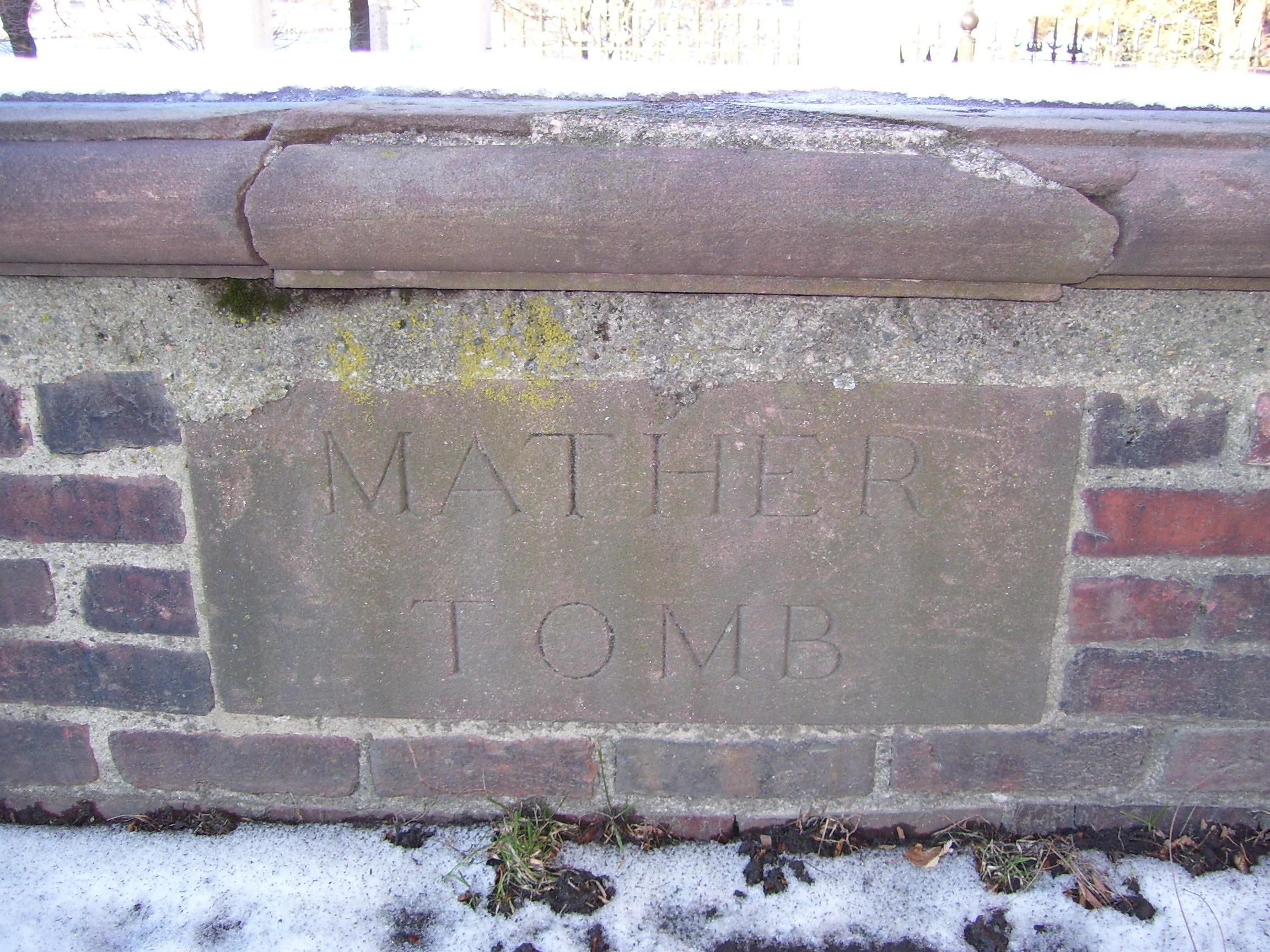 I took this picture of Increase Mather and Cotton Mather's tomb.